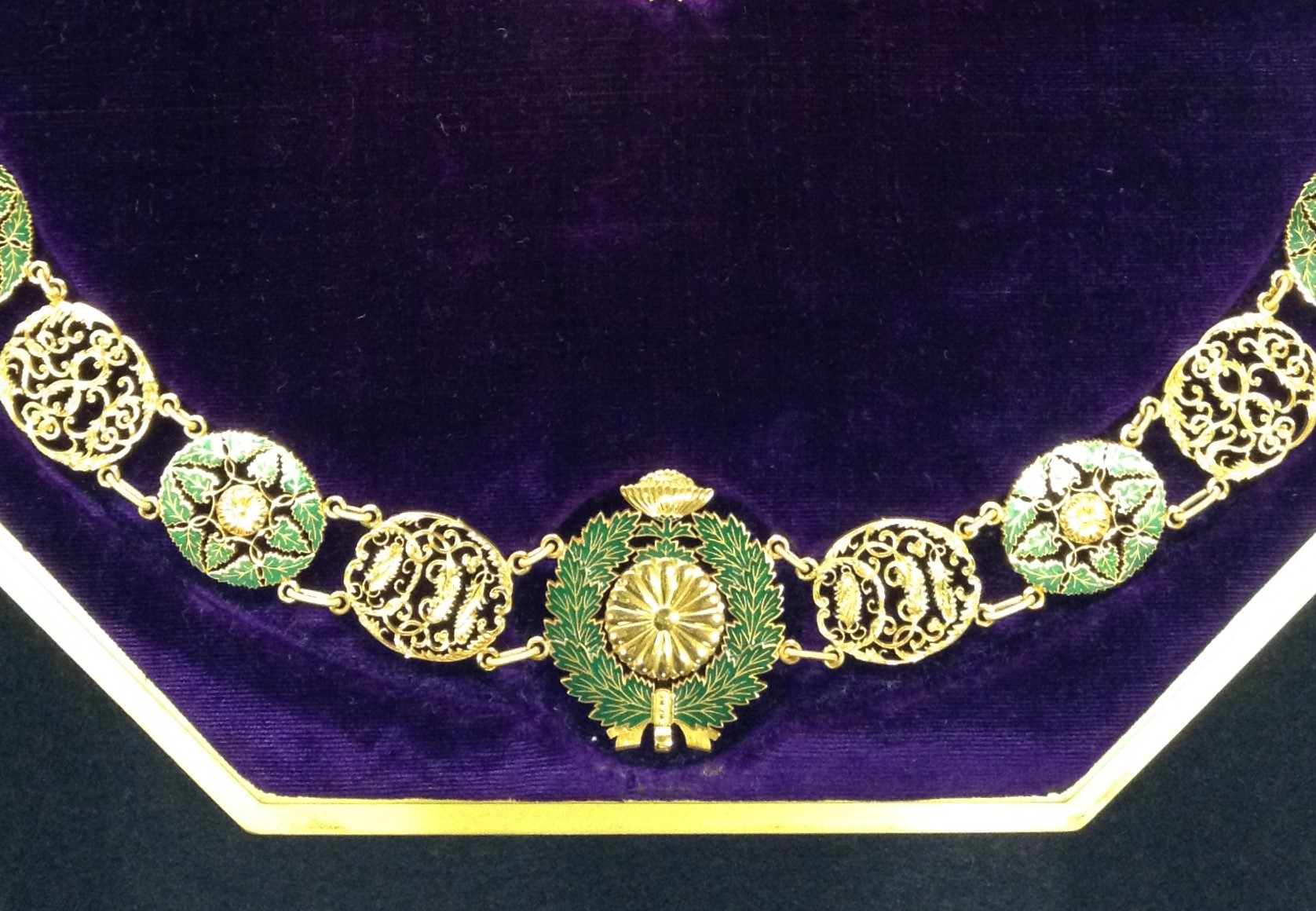 Collar of the Supreme Order of the Chrysanthemum